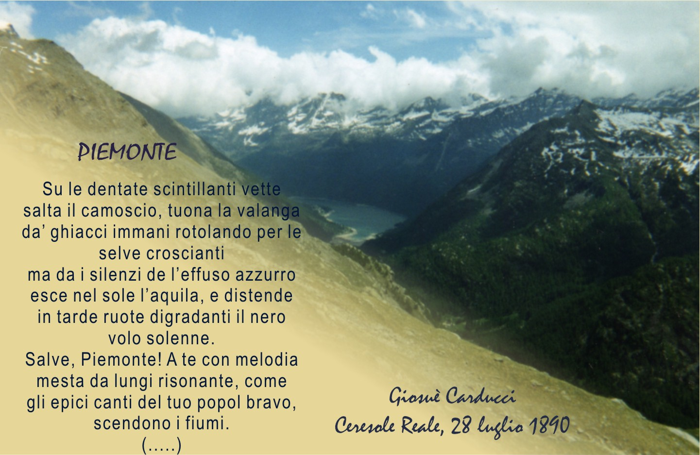 Ceresole Reale and italian poem of Carducci Giosuè (1890) Author: myself